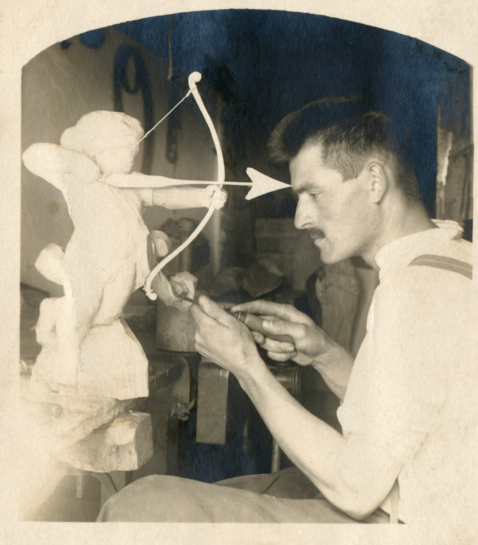 Portrait of Otto Moroder